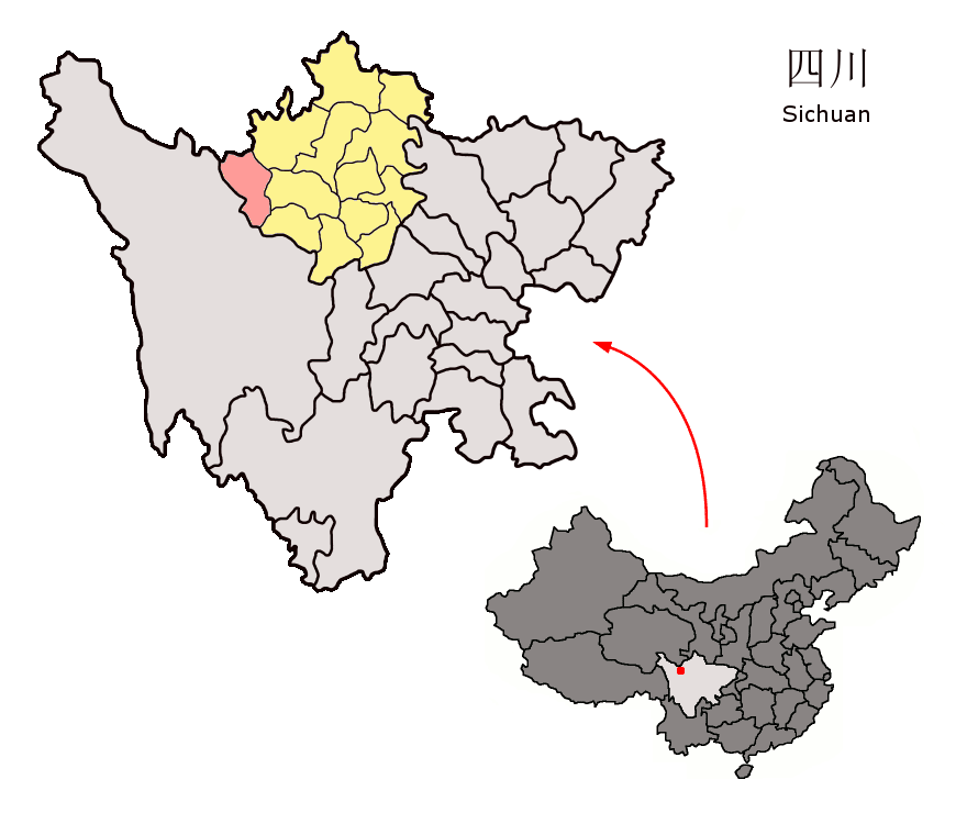 Location of Zamtang County (pink) and Ngawa Prefecture (yellow) within Sichuan province of China Map drawn in september 2007 using various sources, mainly : Sichuan province administrative regions GIS data: 1:1M, County level, 1990 Sichuan Counties map from